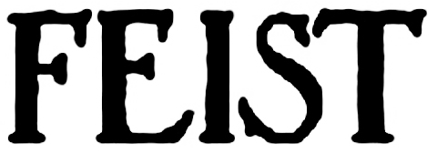 Feist Logo